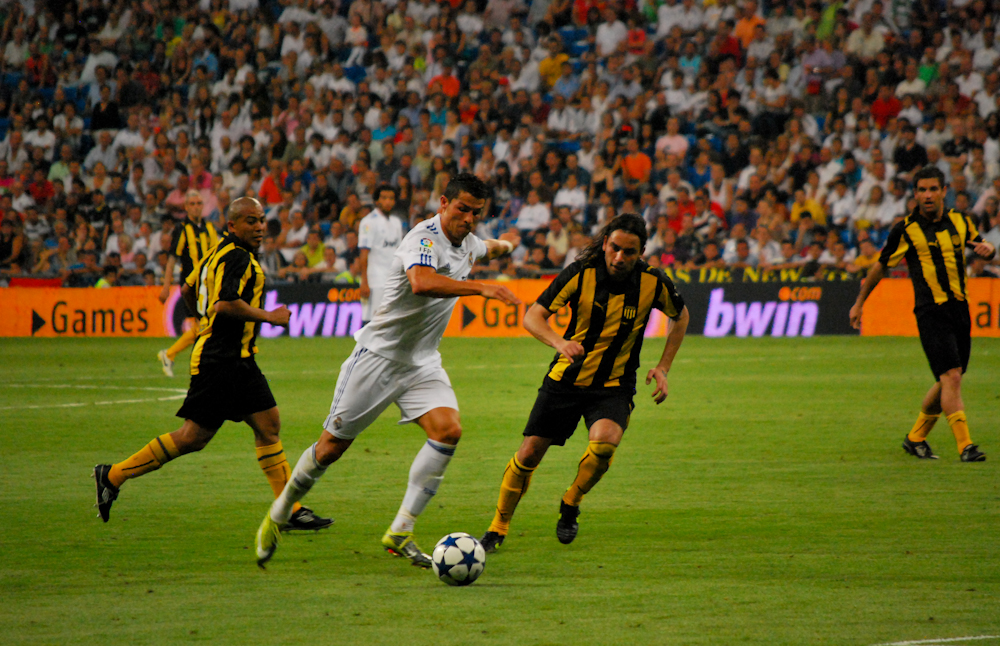 Marcelo Sosa (Peñarol) trying to get the ball from Cristiano Ronaldo (Real Madrid).